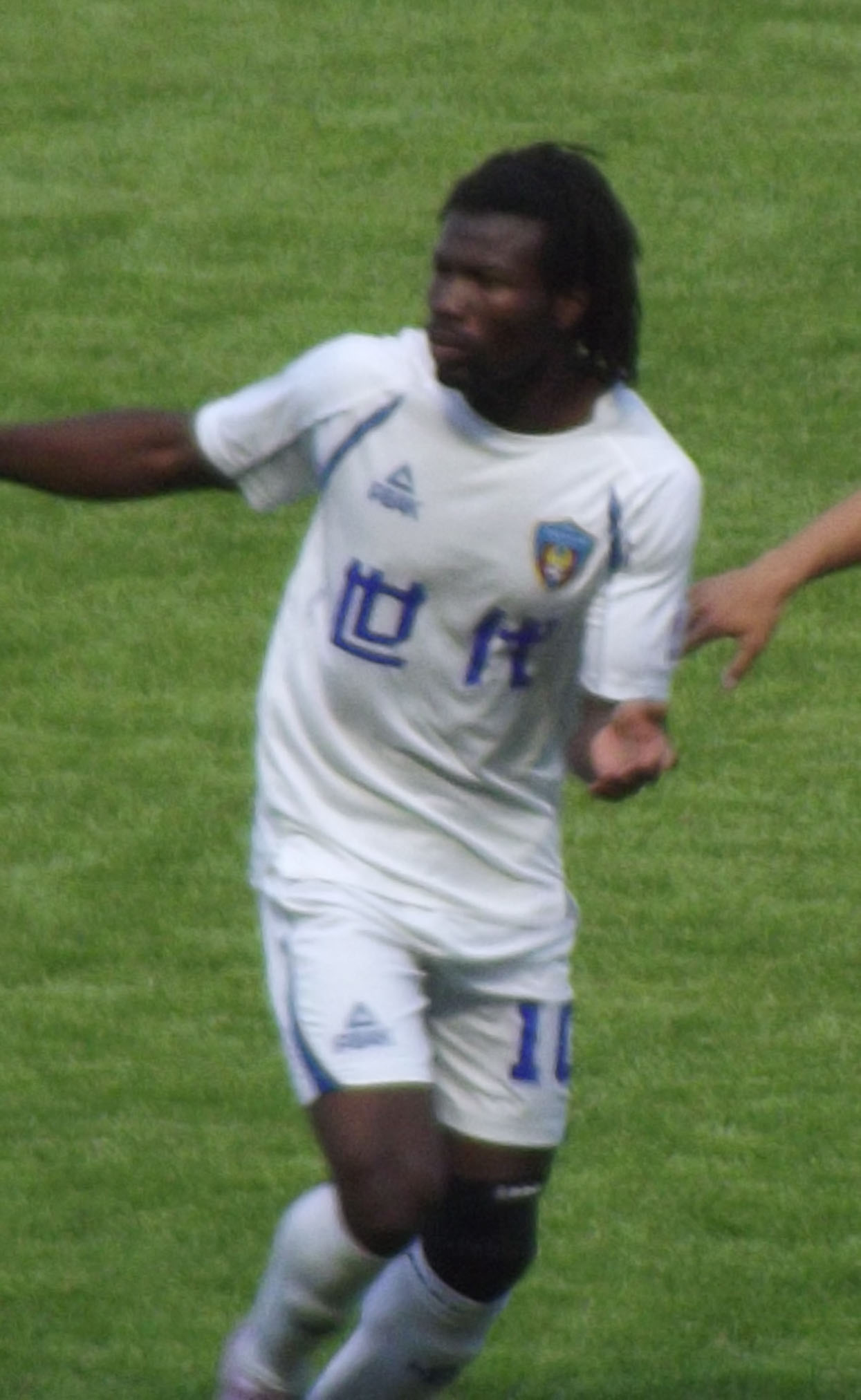 Akani-Sunday Wasiu playing for Shenyang Dongjin F.C.